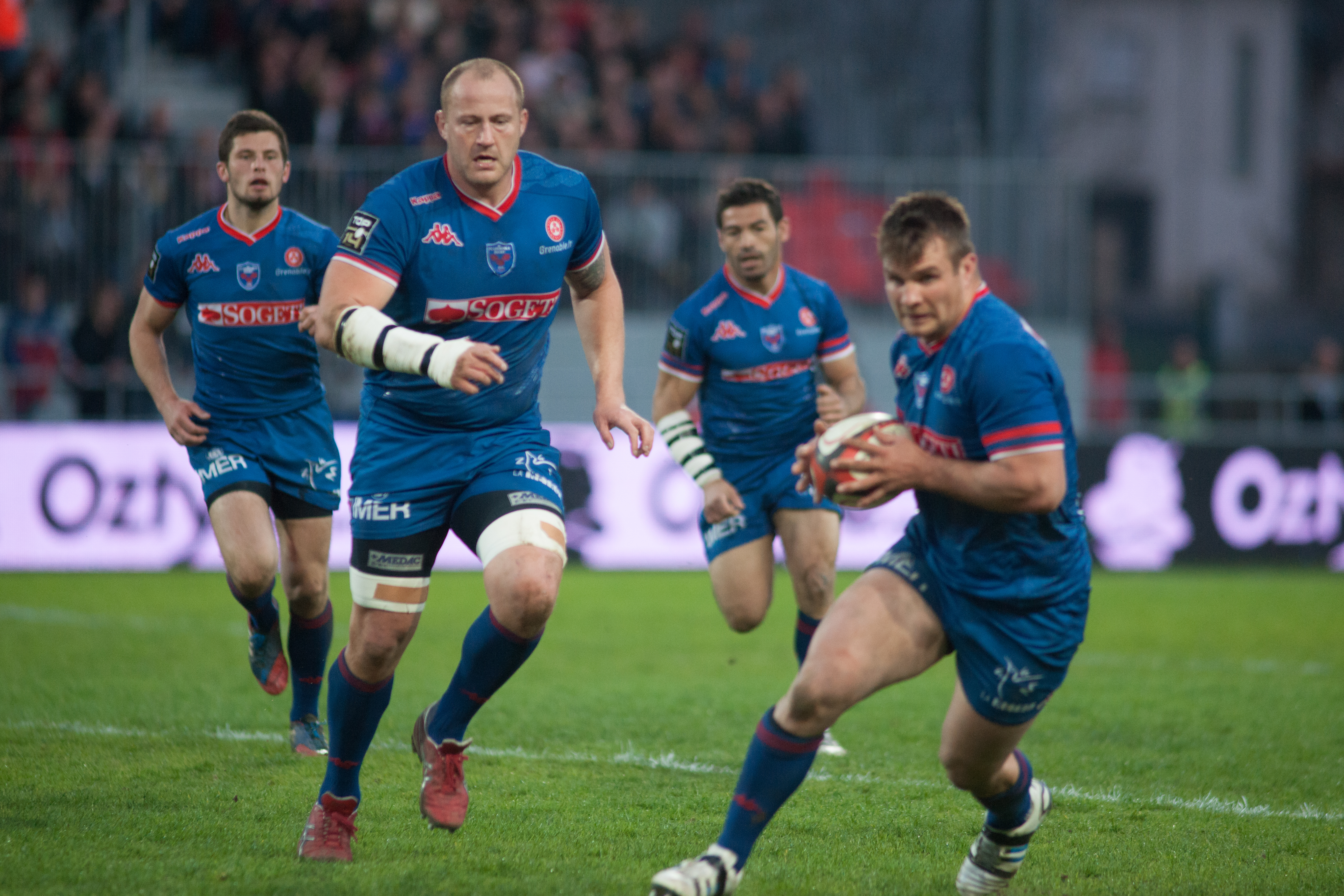 The making of this document was supported by Wikimedia CH.(Submit your project!) For all the files concerned, please see the category Supported by Wikimedia CH. Us Oyonnax vs. FC Grenoble Rugby, 29th March 2014